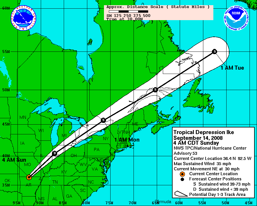 Hurricane Ike 5-day tracking map from NHC. The mileage ruler is in statute miles, where 5 degrees of latitude span 345.2 miles (555.8 km),[1][2] and 5 degrees of longitude at 30 degrees North latitude span 299.8 miles (482.7 km).[3] The scale and offset of the map can vary with each advisory (compare map boundaries of advisories 43 & 44), re-centered for the latest forecast path (white cone).